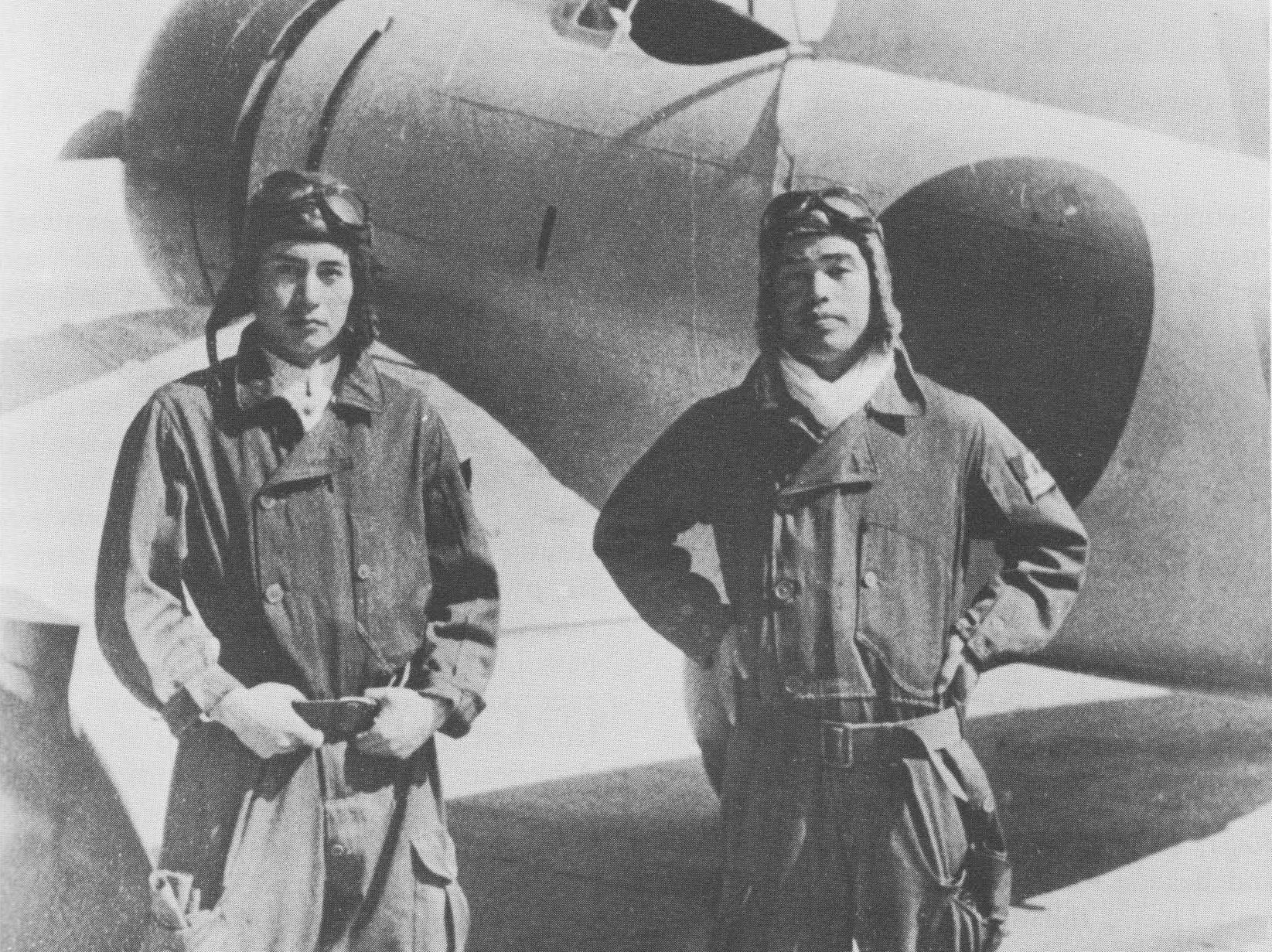 Imperial Japanese Navy fighter pilots Masao Asai (left) and Masao Sato (right) in front of a Type 96 Model 4 (Mitsubishi A5M) fighter on the aircraft carrier Akagi during the Sino-Japan war.